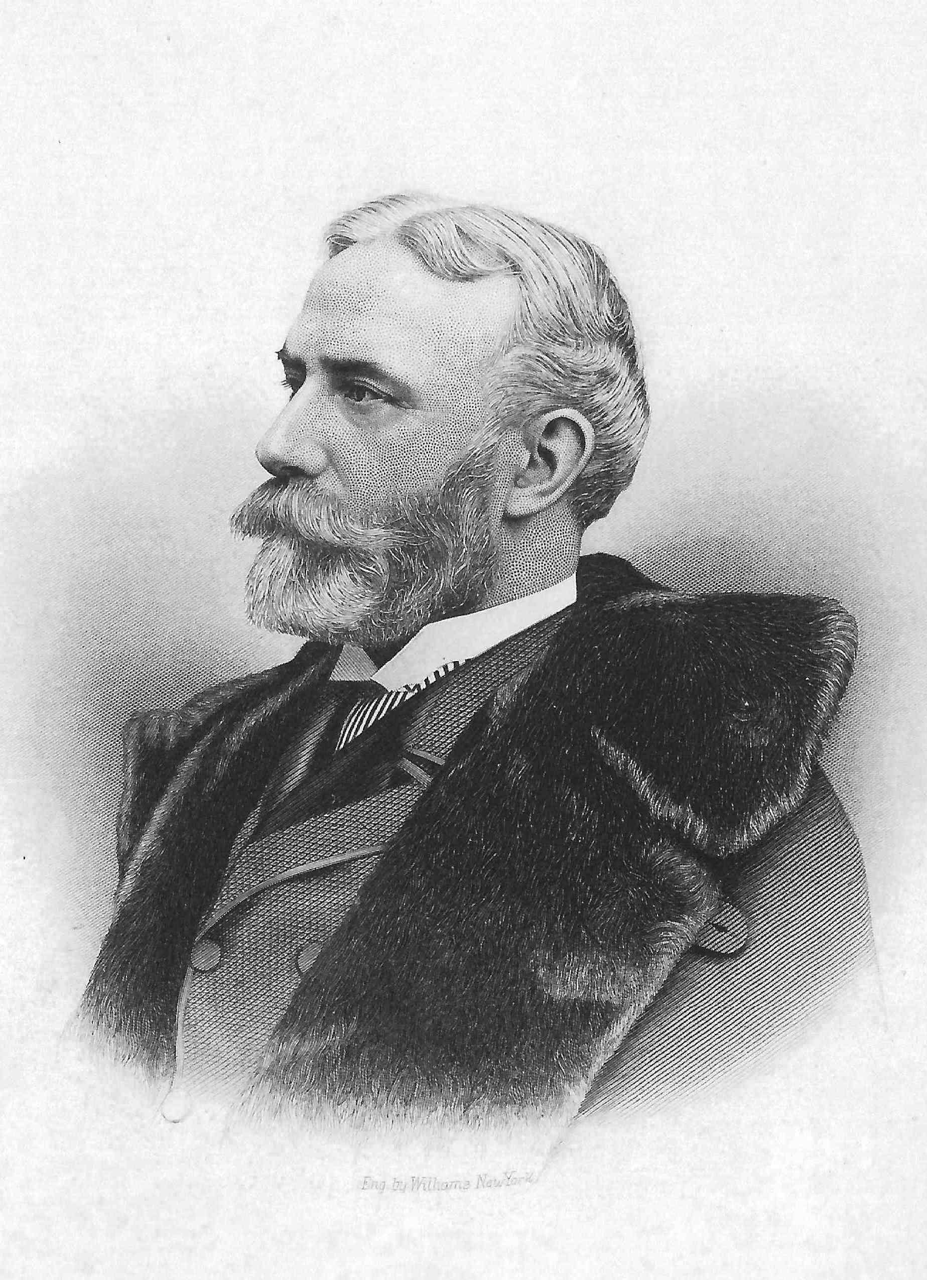 Portrait of Elliott Fitch Shepard in 1890.